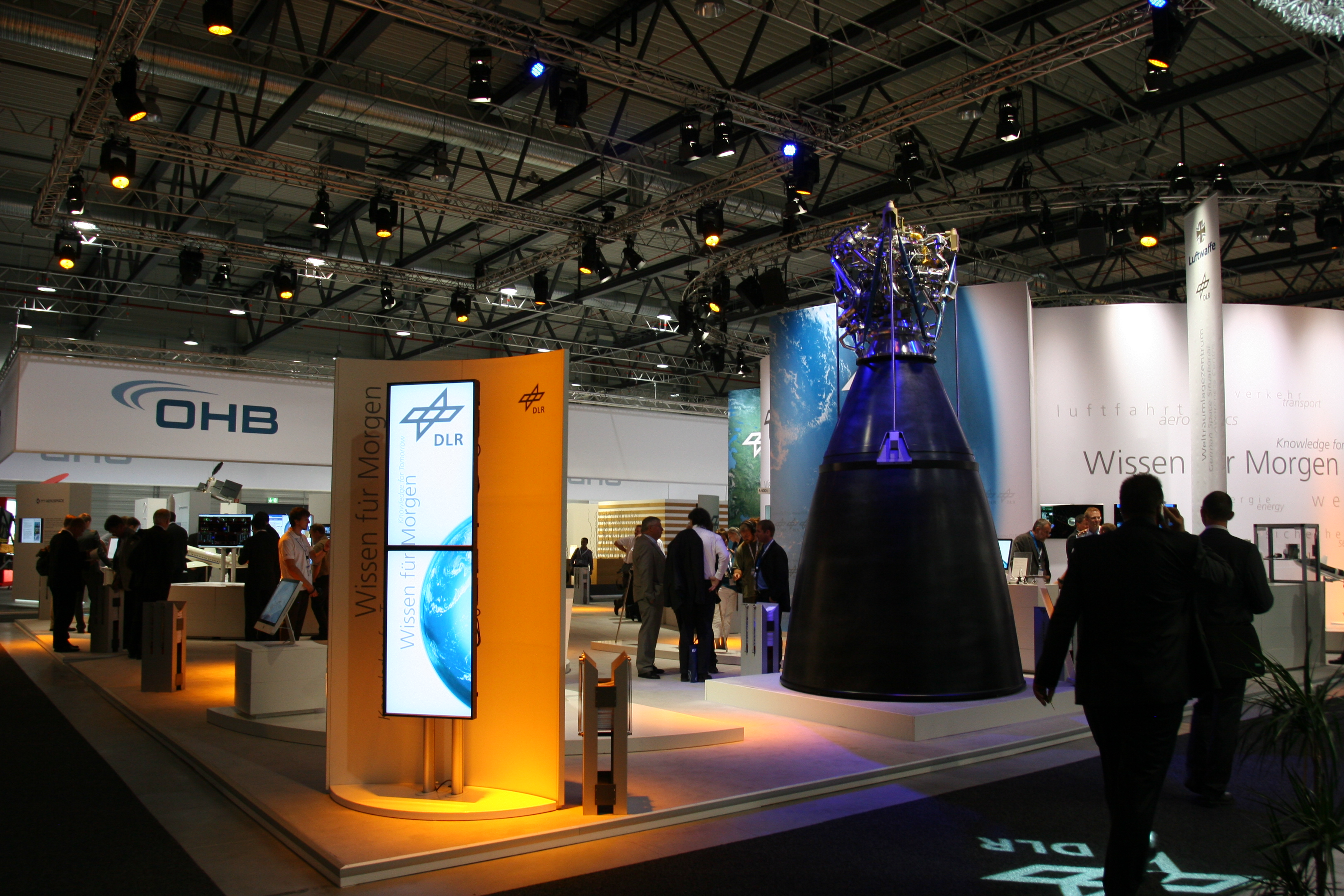 DLR at ILA 2012 - Day 1, first impressions